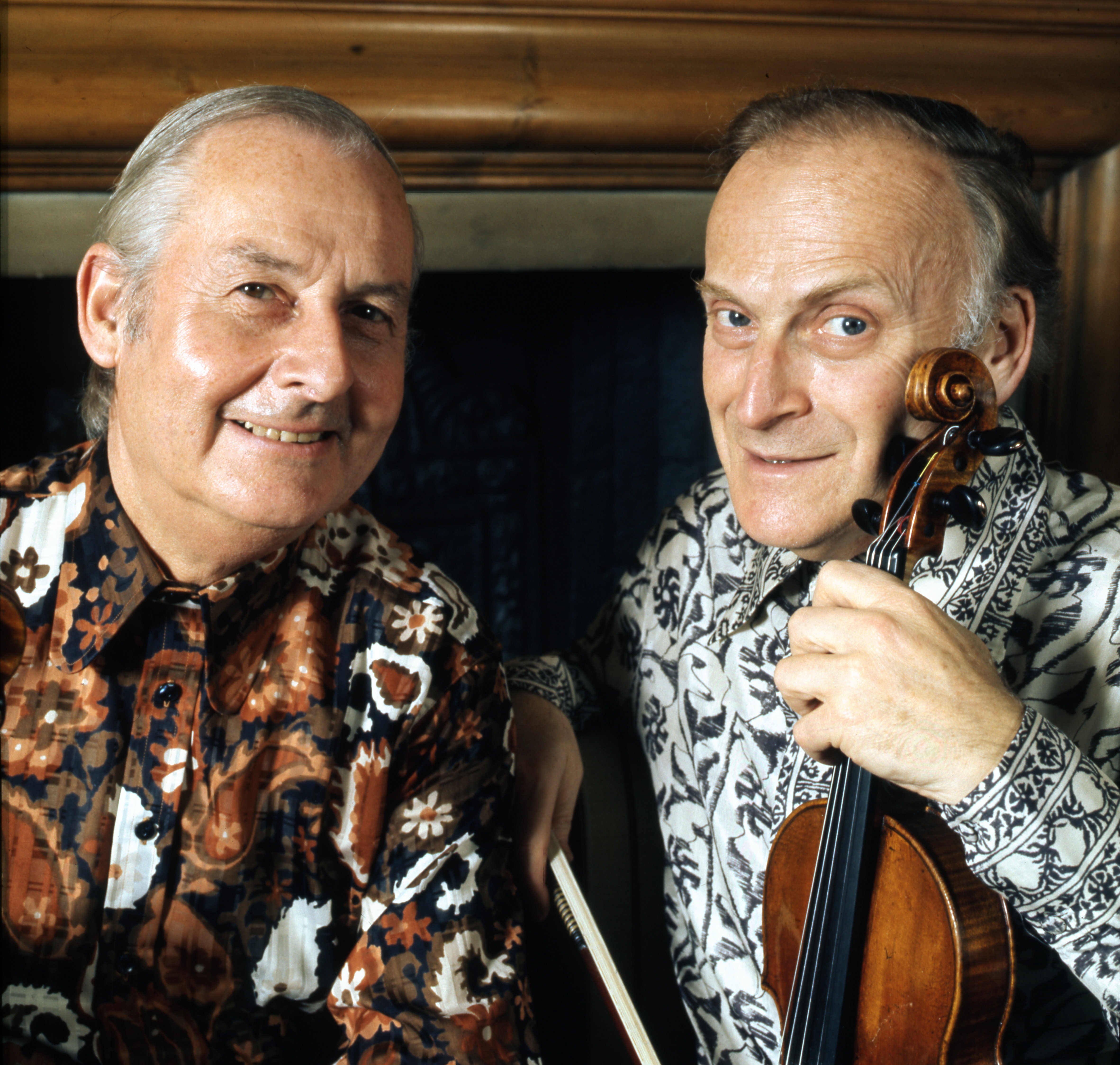 portrait of Yehudi Menuhin & Stephane Grappelli